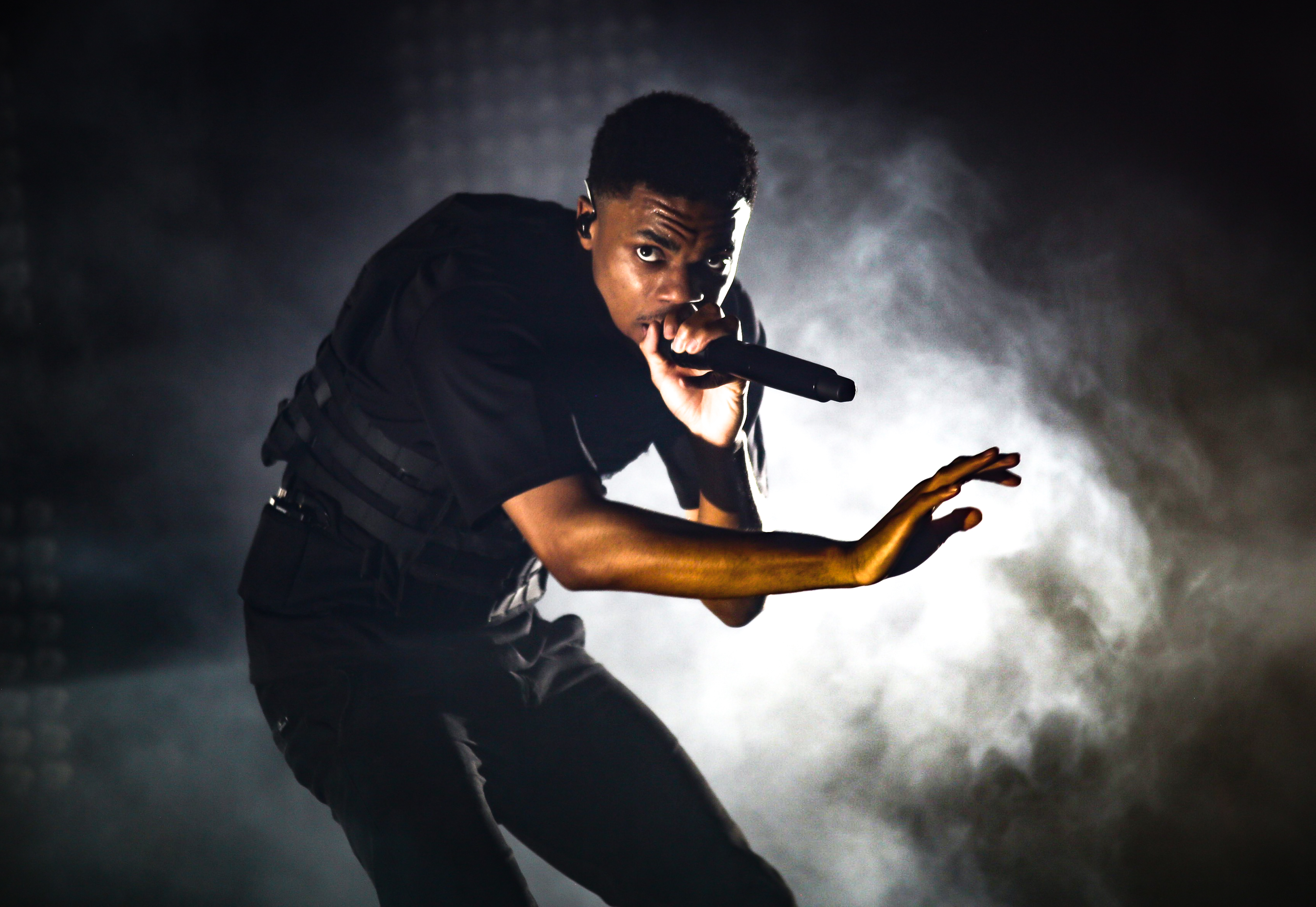 Vince Staples - First Avenue - Rap - Minnesota - Def Jam - Big Fish Theory